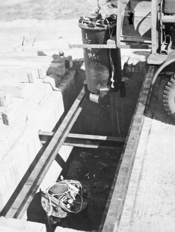 Royal Air Force Radio Counter-measures, 1939-1945. 'Jostle' transmitters being lowered into their loading pit. The receiving aircraft was positioned over the pit so that the device could be hoisted into its bomb-bay.